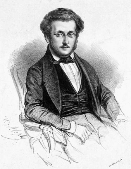 German violinist and composer Heinrich Panofka (1807-1887) by Marie-Alexandre Alophe (1812-1883).